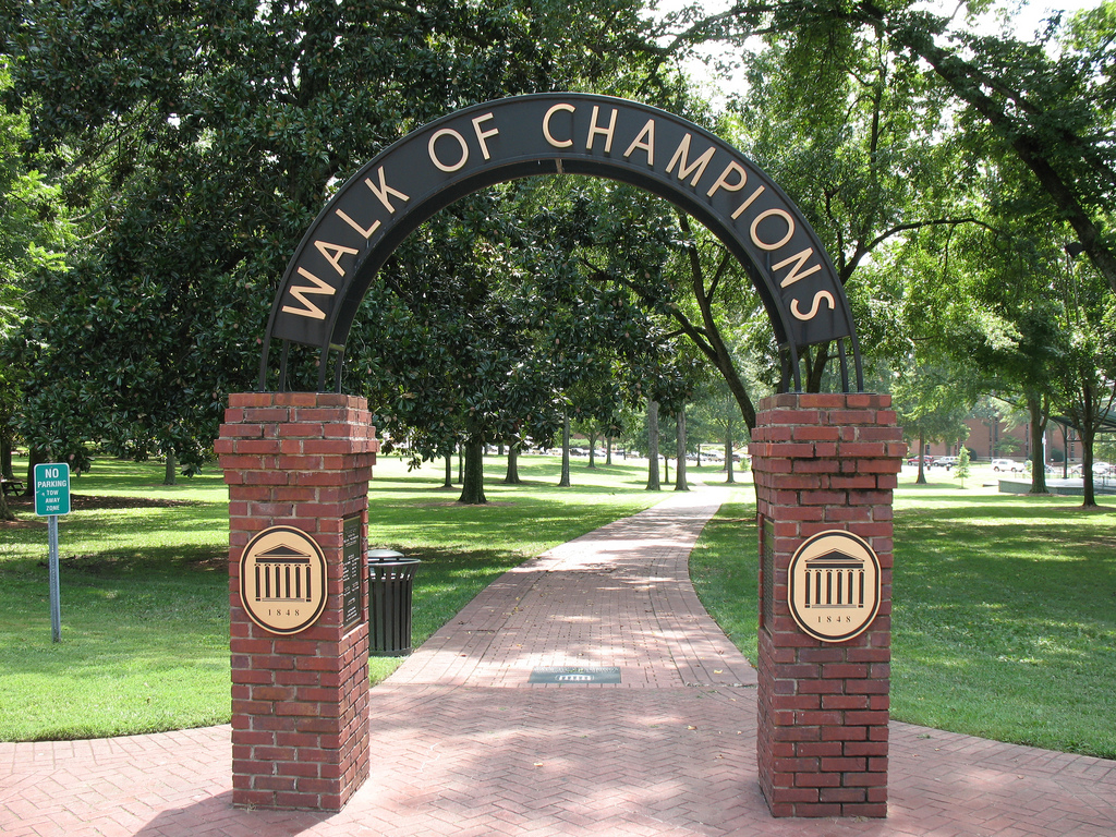 The Walk of Champions at University of Mississippi (Ole Miss).